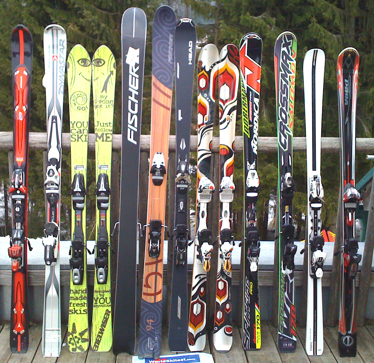 different skimodels for season 2010